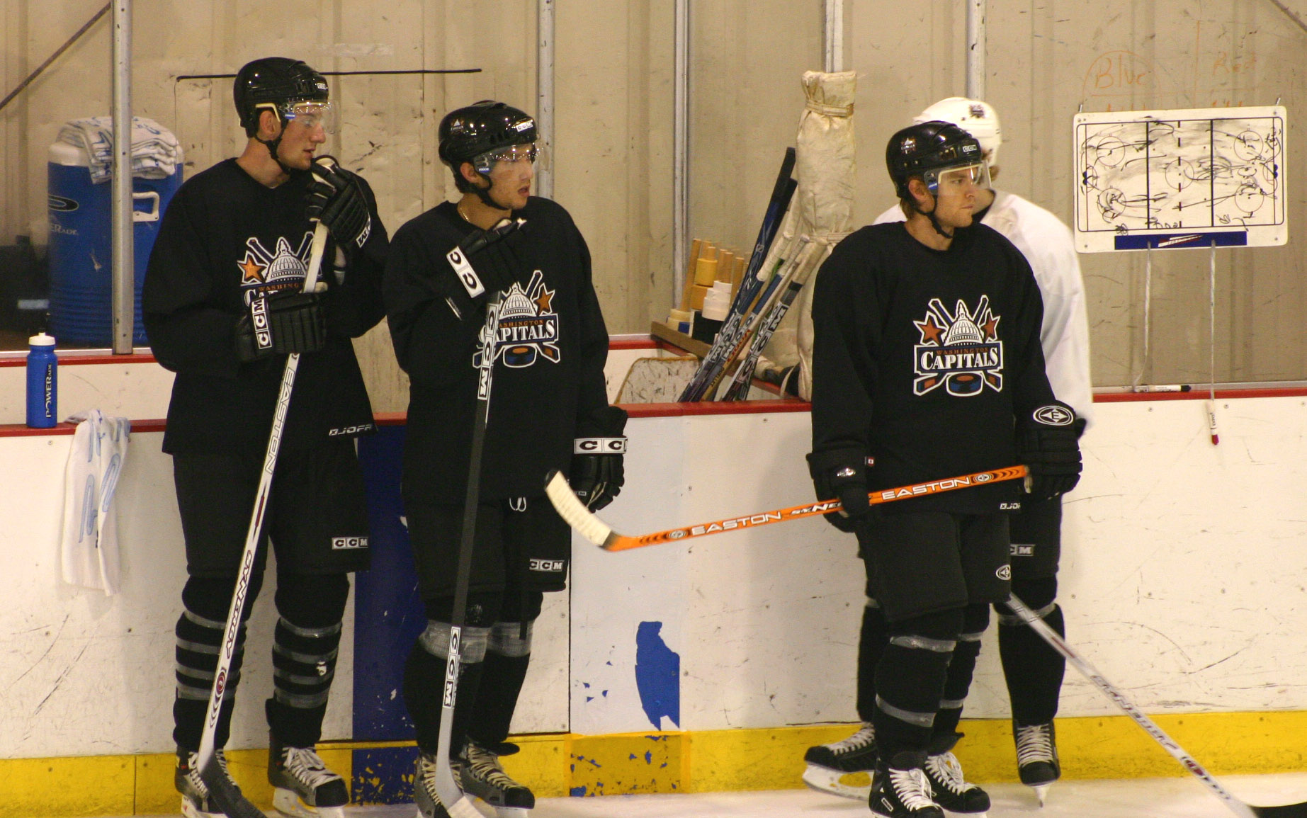 from left to right: Jeff Schultz,Alexander Ovechkin and Mr.X @ Washington Capitals 2005 Training Camp252_5255